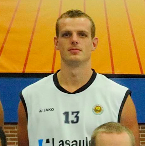 Mark-Peter Hof, a Dutch basketball player in his Aris Leeuwarden uniform in 2011.